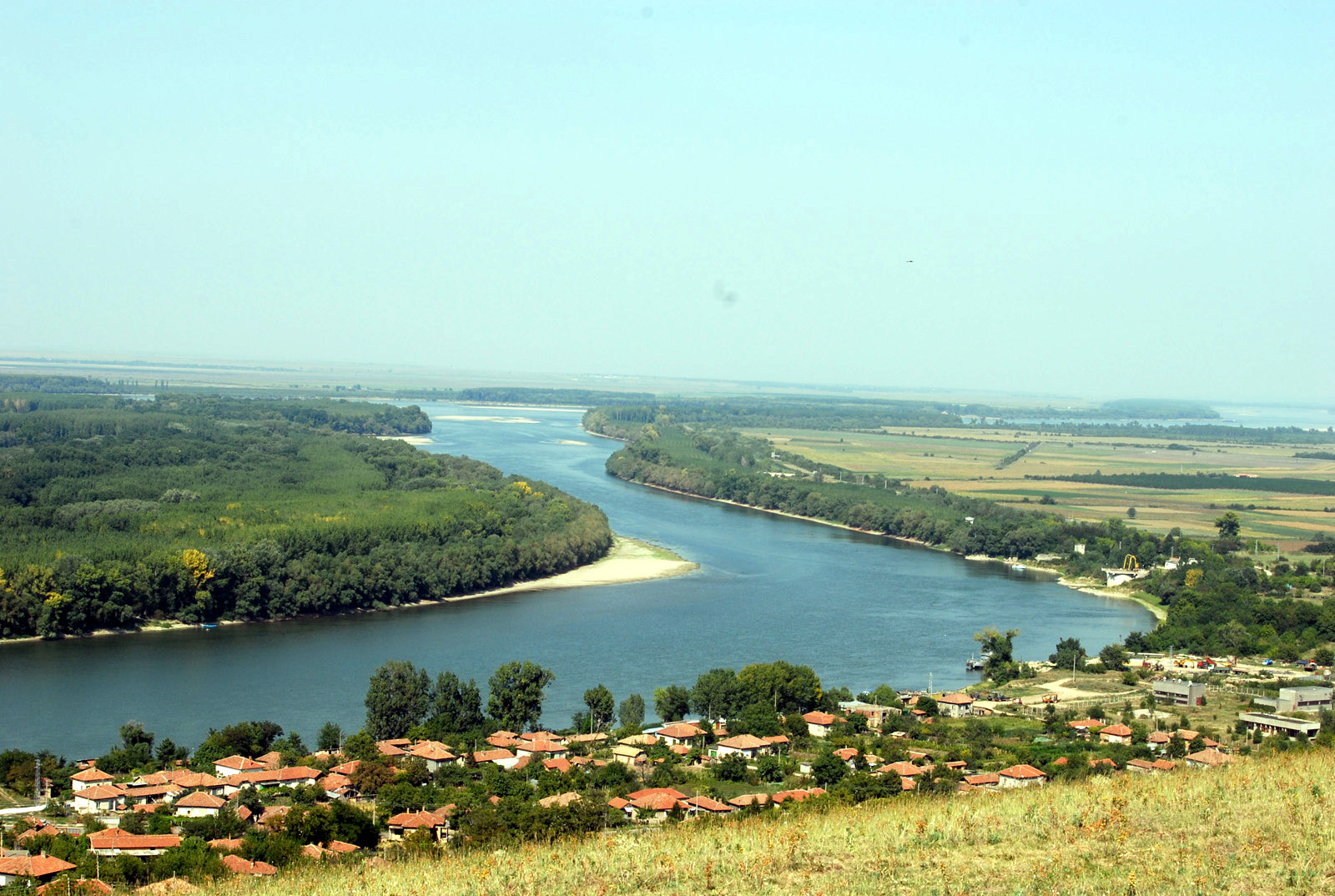 The Danube River near by village of Vardim, Bulgaria